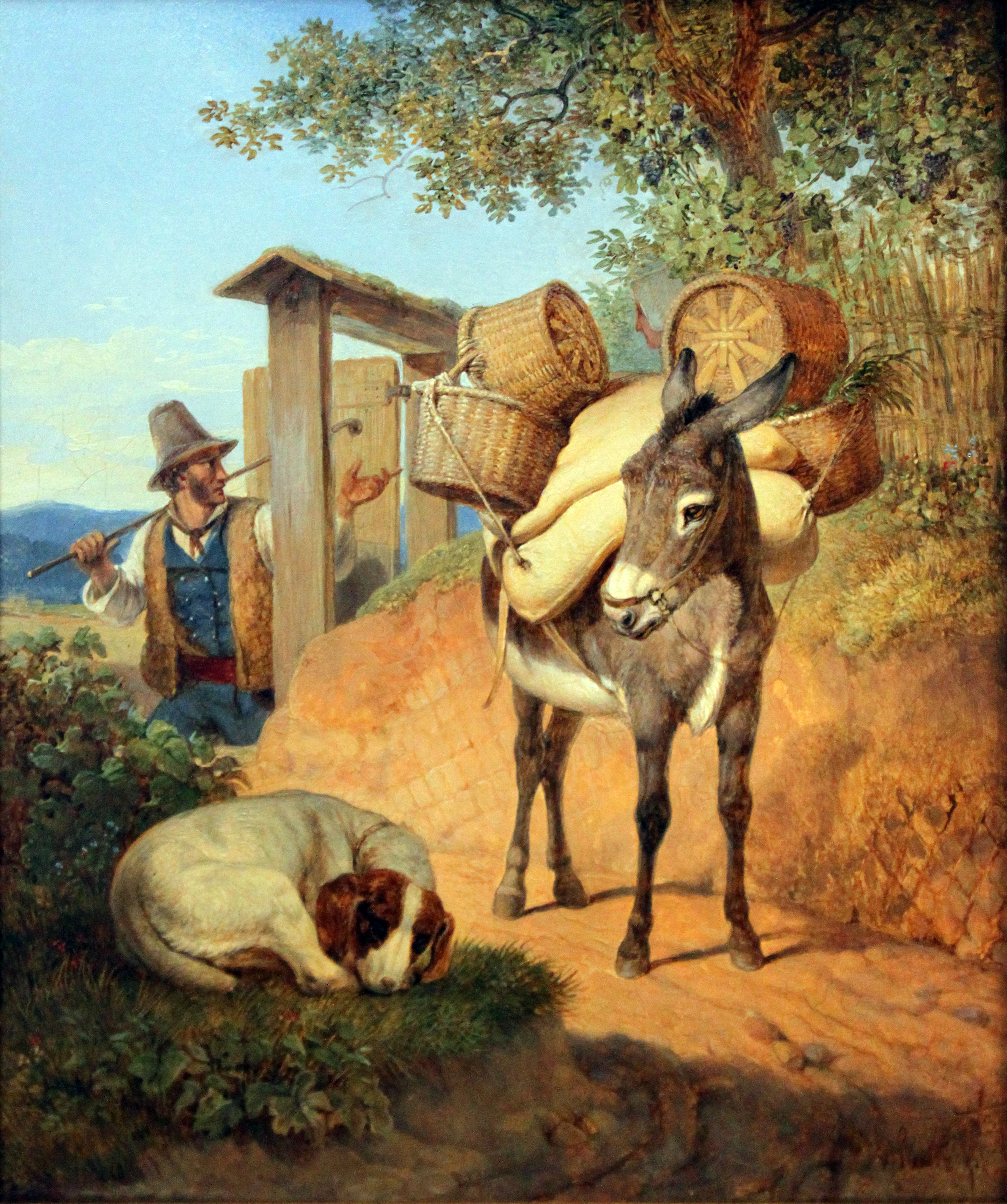 Donkey, dog and driver